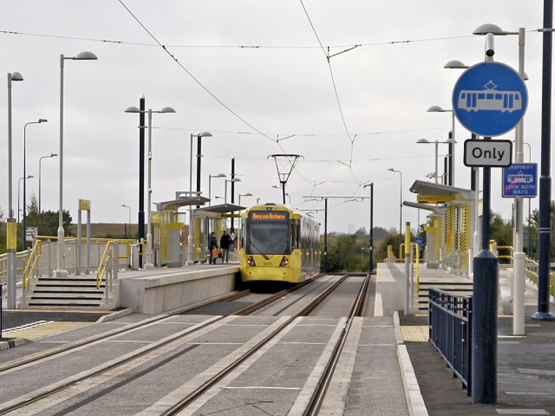 Phase 3b of the Metrolink East Manchester Extension opened between Droylsden and Ashton–Under-Lyne on Wednesday, 9 October 2013. The new extension added a further 2.1 miles and 4 new stops to the route. The Ashton West stop has two side platforms and is in the central reservation of the bypass, just west of the Richmond Street junction. It has ramps from both platforms to a track level pedestrian crossing at the western end of the stop; also ramps towards the eastern end, together with steps, and an eastern track level pedestrian crossing.